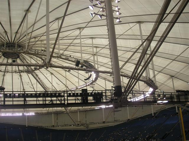 A view from the outfield Tropicana Field's infamous catwalks. 04:10, 26 October 2007 . . Zeng8r . . 640×480 (72 KB)